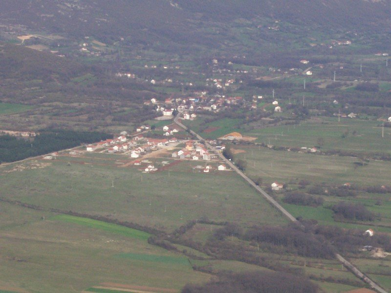 Town Berkovići